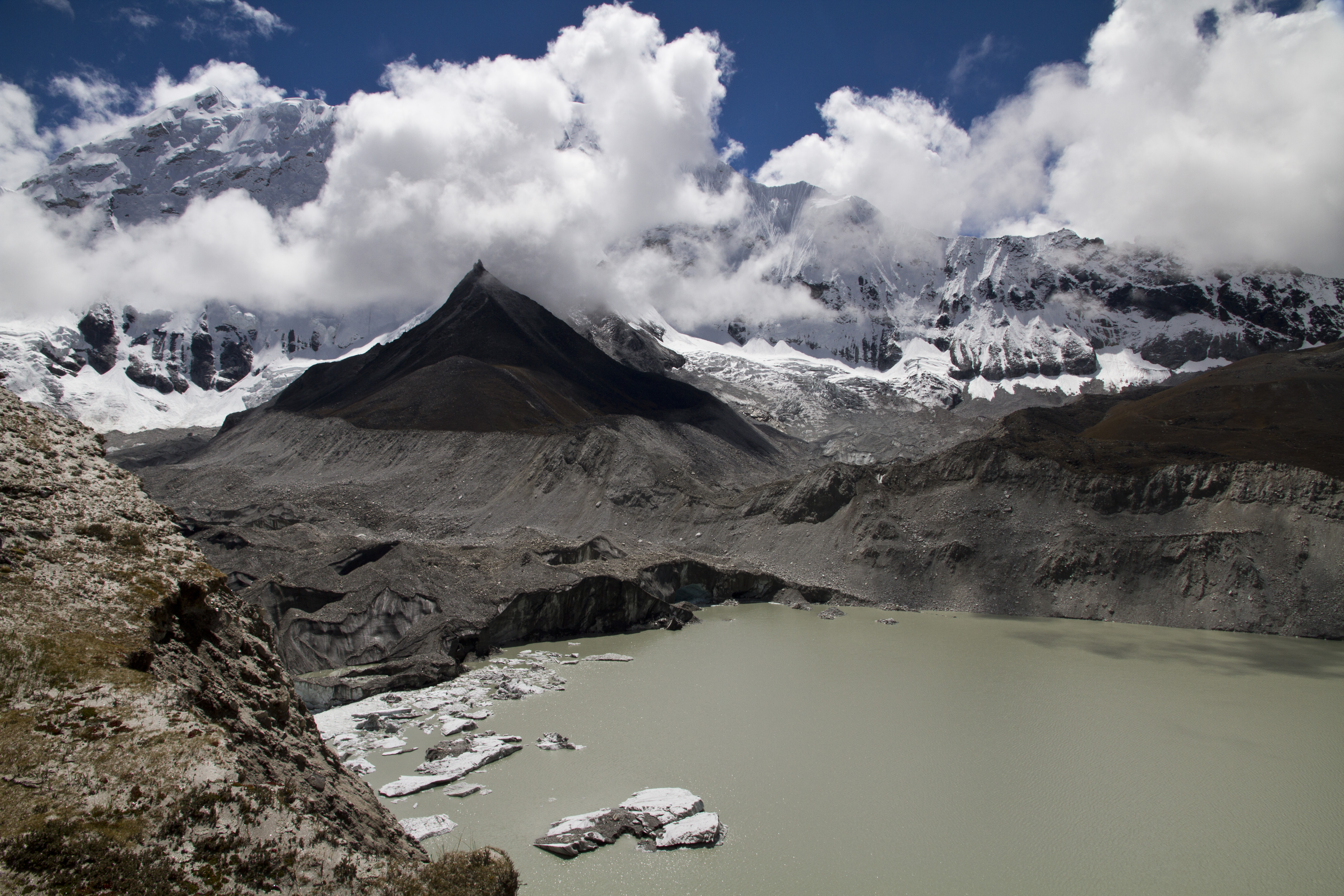 The eastern terminus of Imja Lake where it meets Imja Glacier